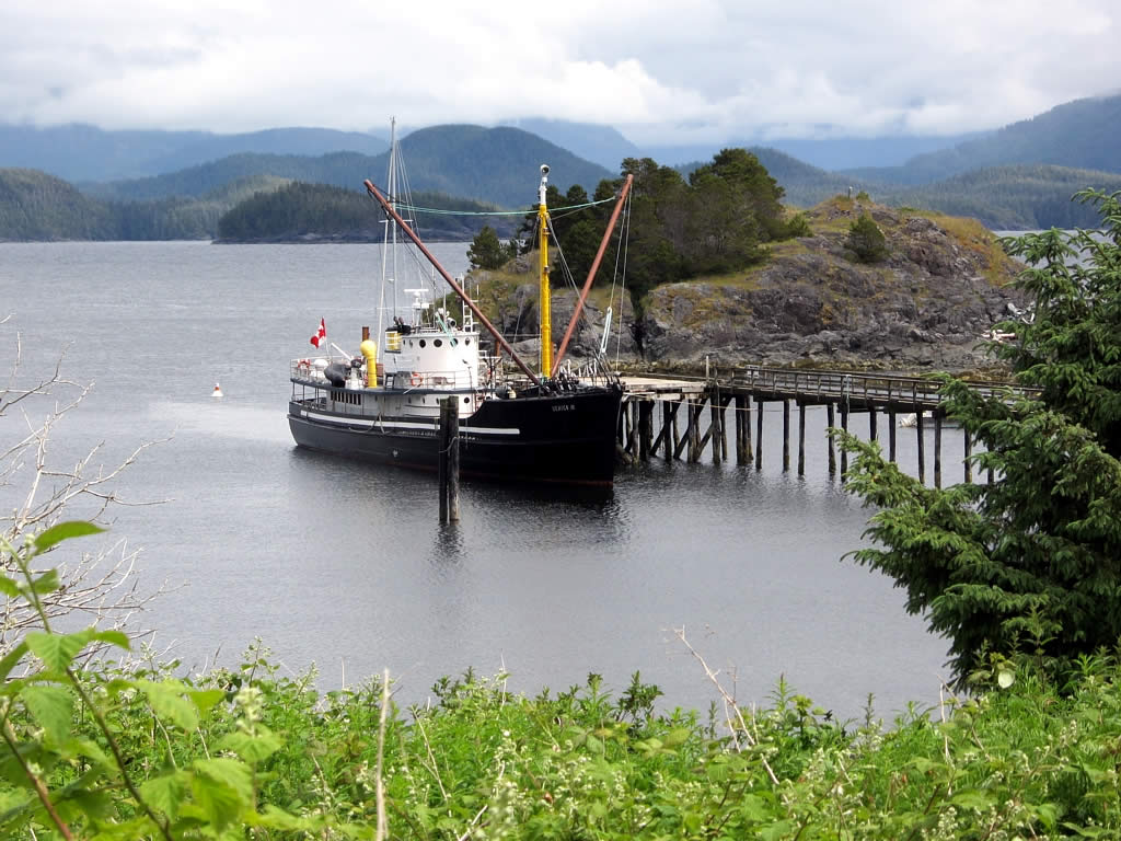 From 1789 to 1795 a Spanish fort existed on this hill at Friendly Cove, British Columbia, Canada. The freighter Uchuck III takes visitors there today.